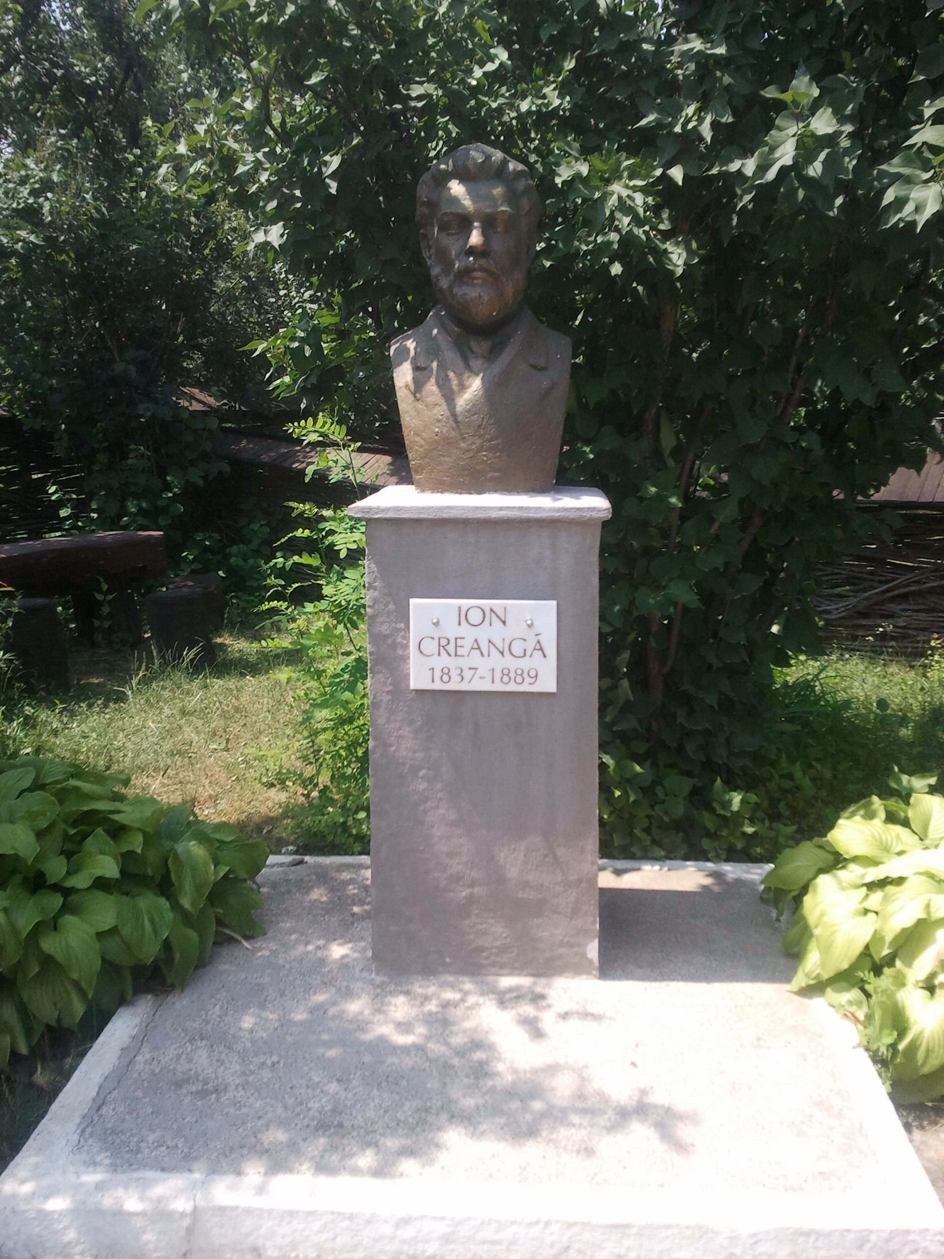 The bust of Ion Creangă from his memorial house, Humulești.